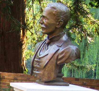 Bust of W&M president, Lyon Tyler